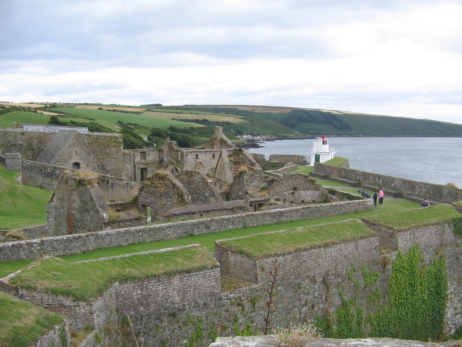 Town of Kinsale in the Ireland. Fortress Charles Fort near town.